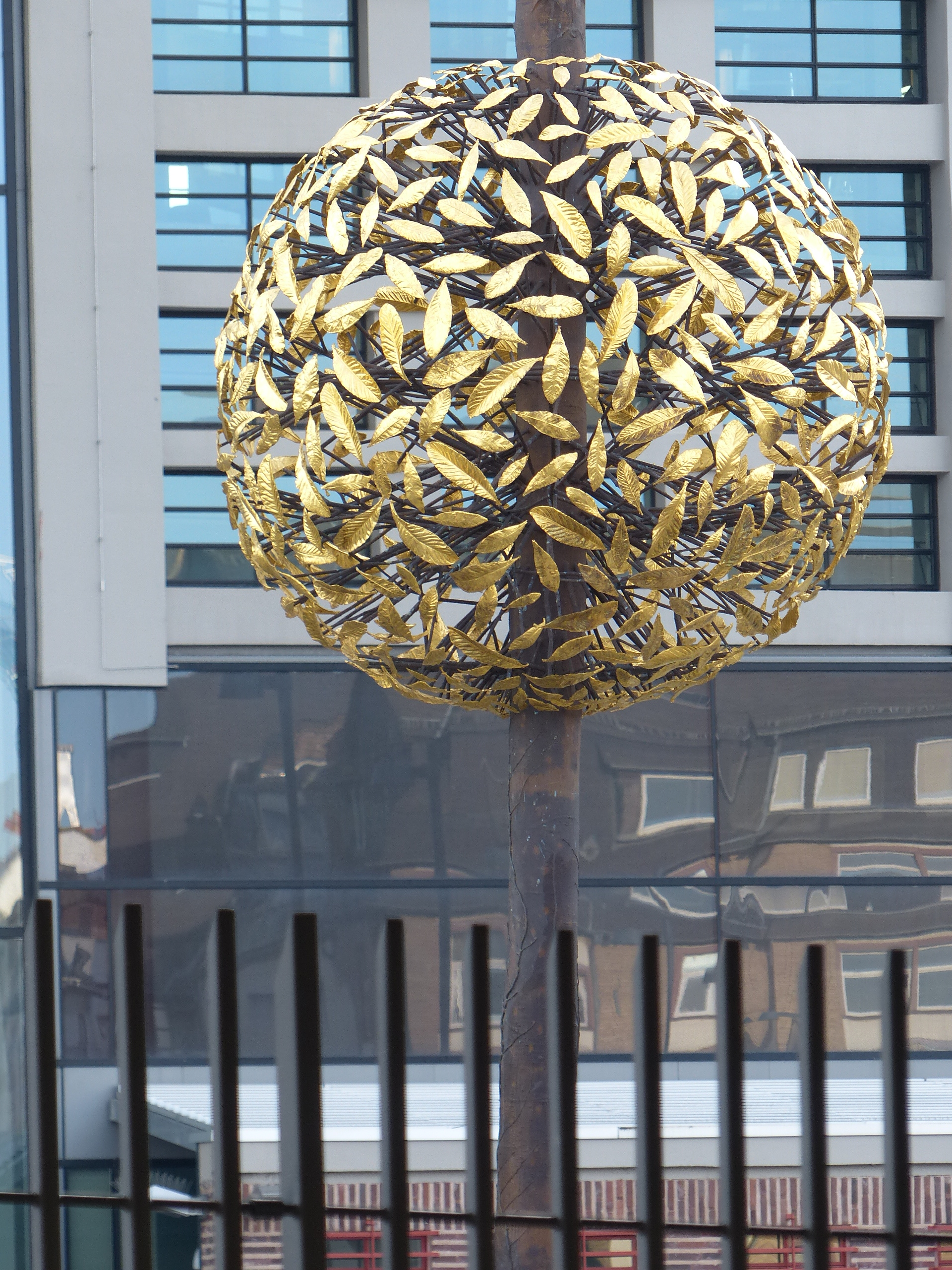 New European Central Bank (“EZB”) headquarters in the Ostend (East End) borough of Frankfurt am Main, Germany; frontside